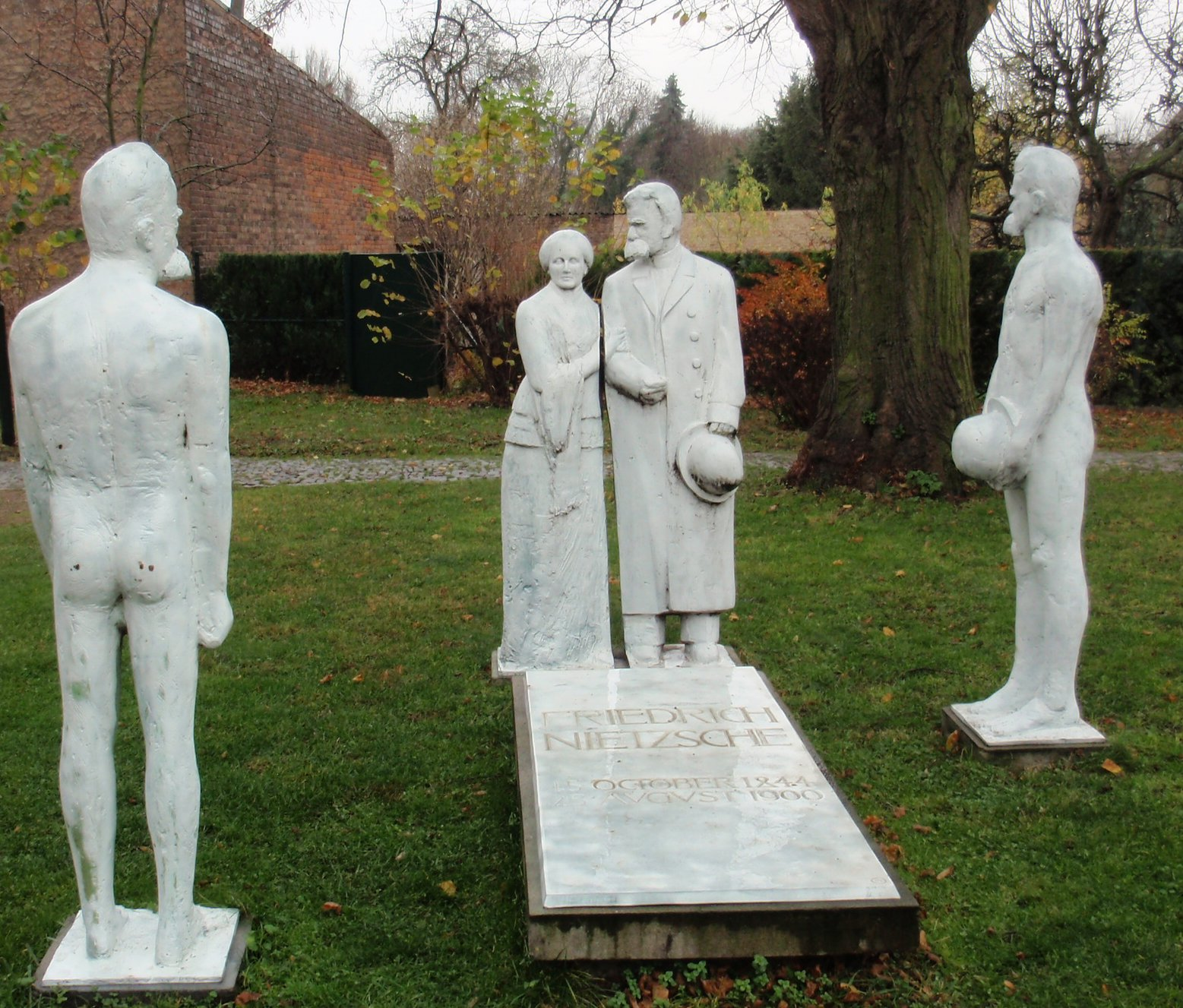 Group of sculptures ("Röckener Bacchanal") near Nietzsche's grave, from east. The picture does not show the grave itself, only a replica of the tombstone